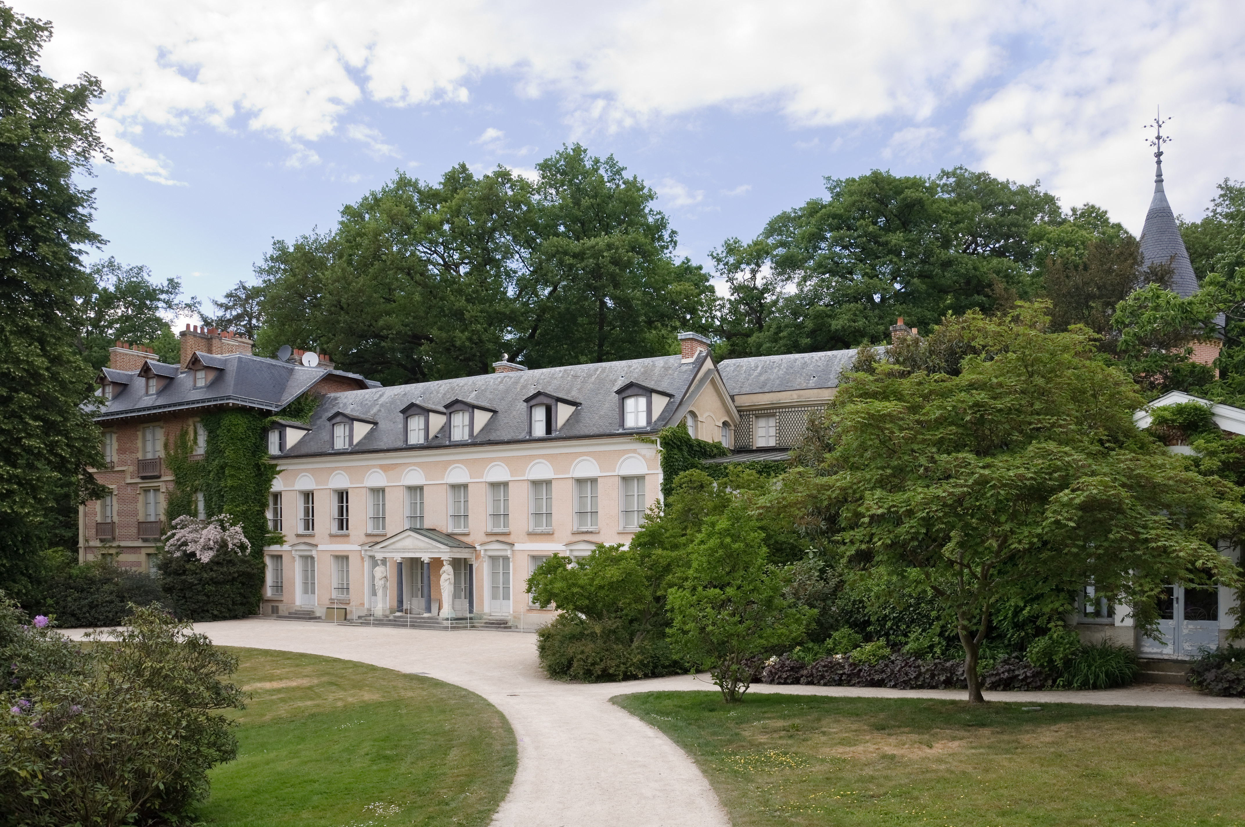 House of François-René de Chateaubriand in the Vallée-aux-Loups estate, Hauts-de-Seine, France.